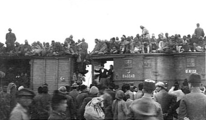 Ottoman troops being moved by train after the end of World War I Other information Copyright expired access unrestricted